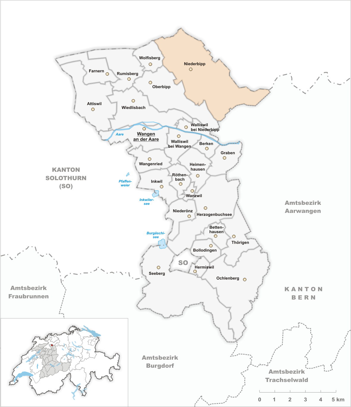 Municipality Niederbipp